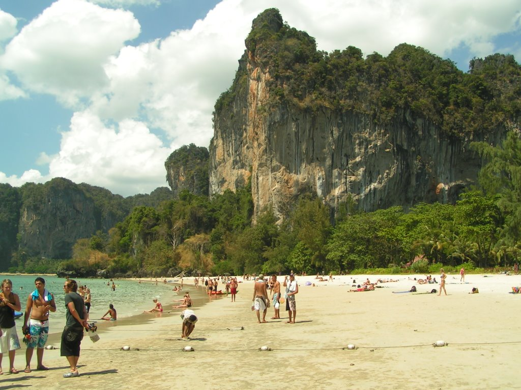 Railay Beach inland.